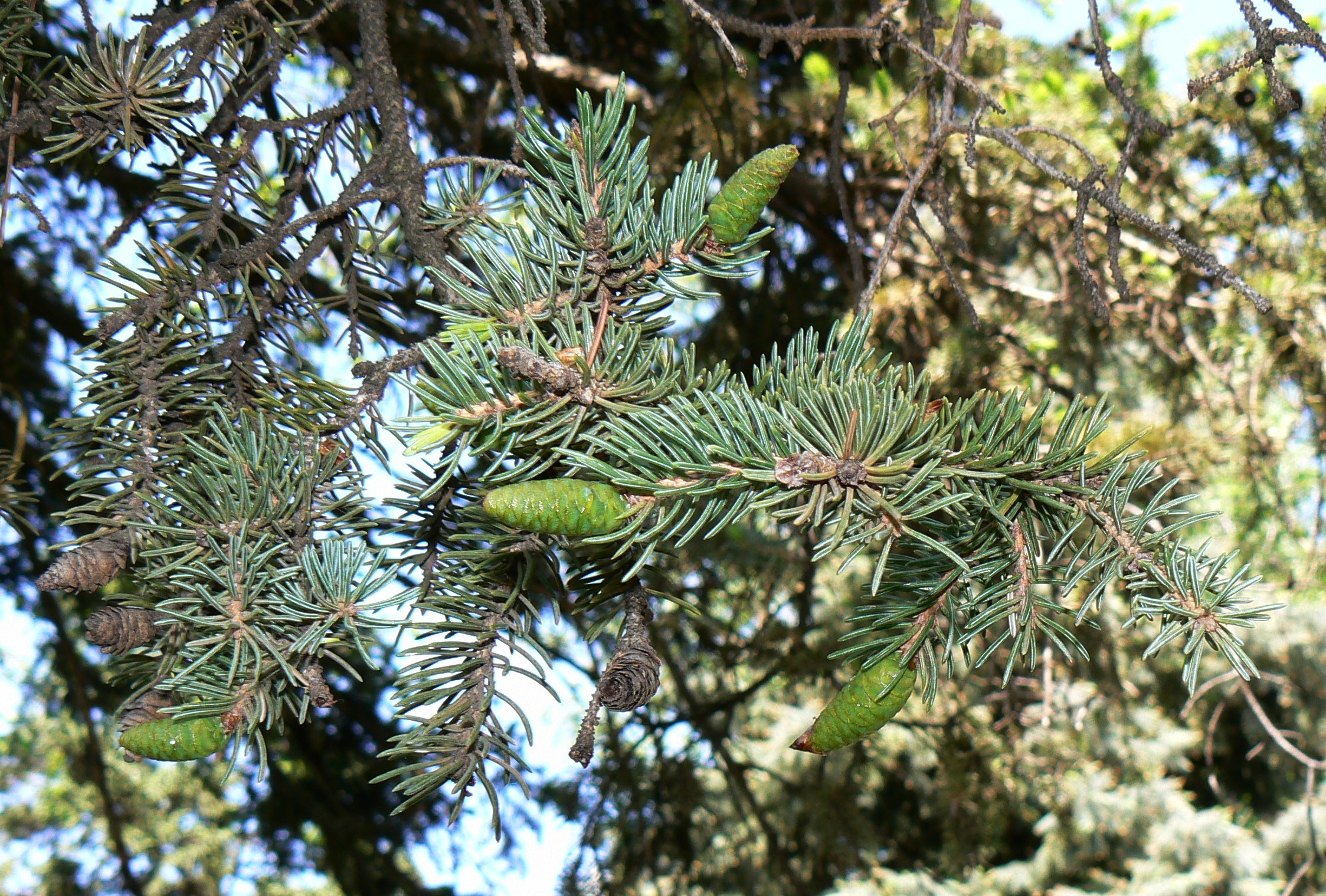 White Spruce Picea glauca needles and young cones